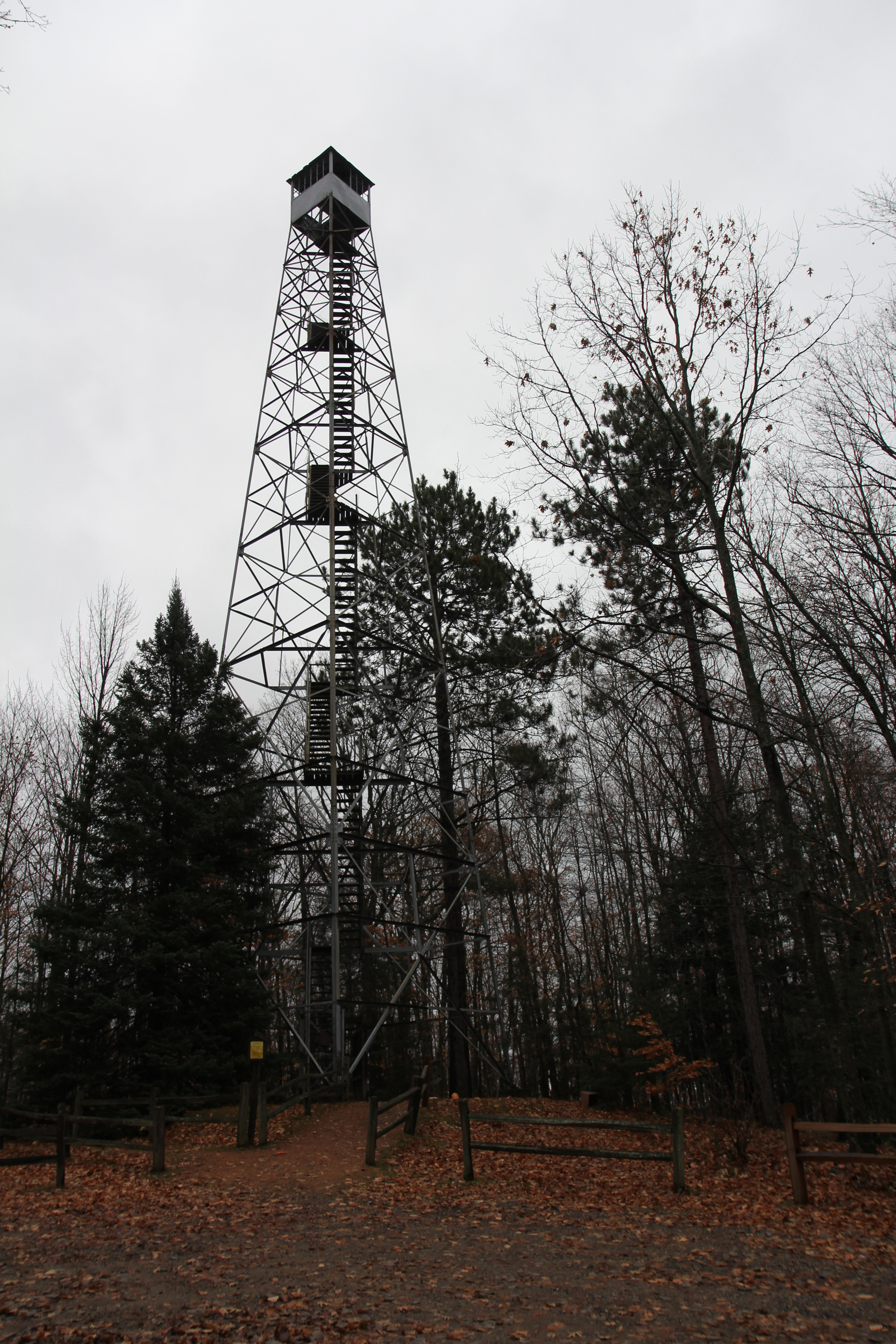 The Mountain Fire Lookout Tower reaching above the forest. It is listed on the National Register of Historic Places.